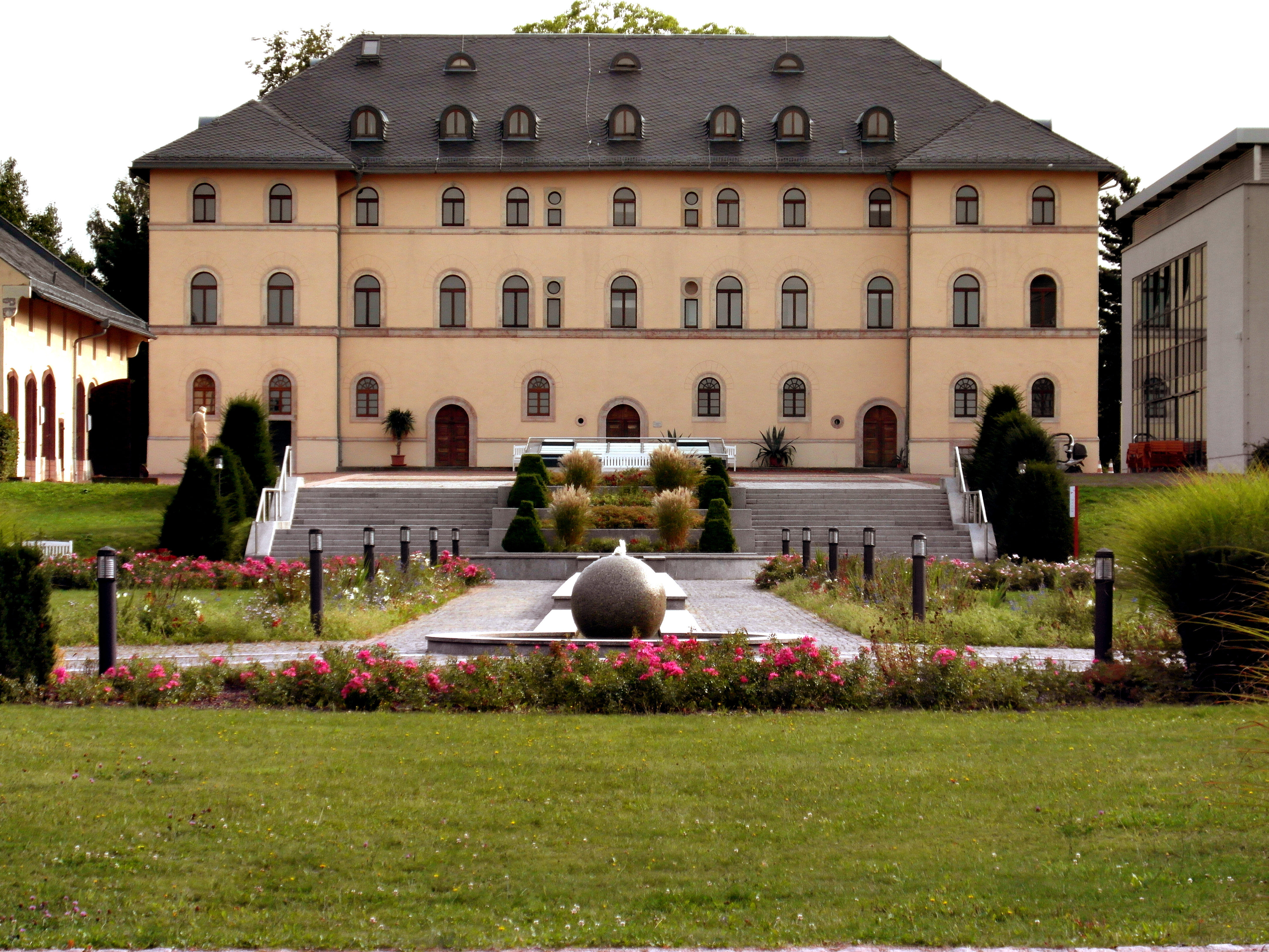 Lichtenstein's palace from the backside.